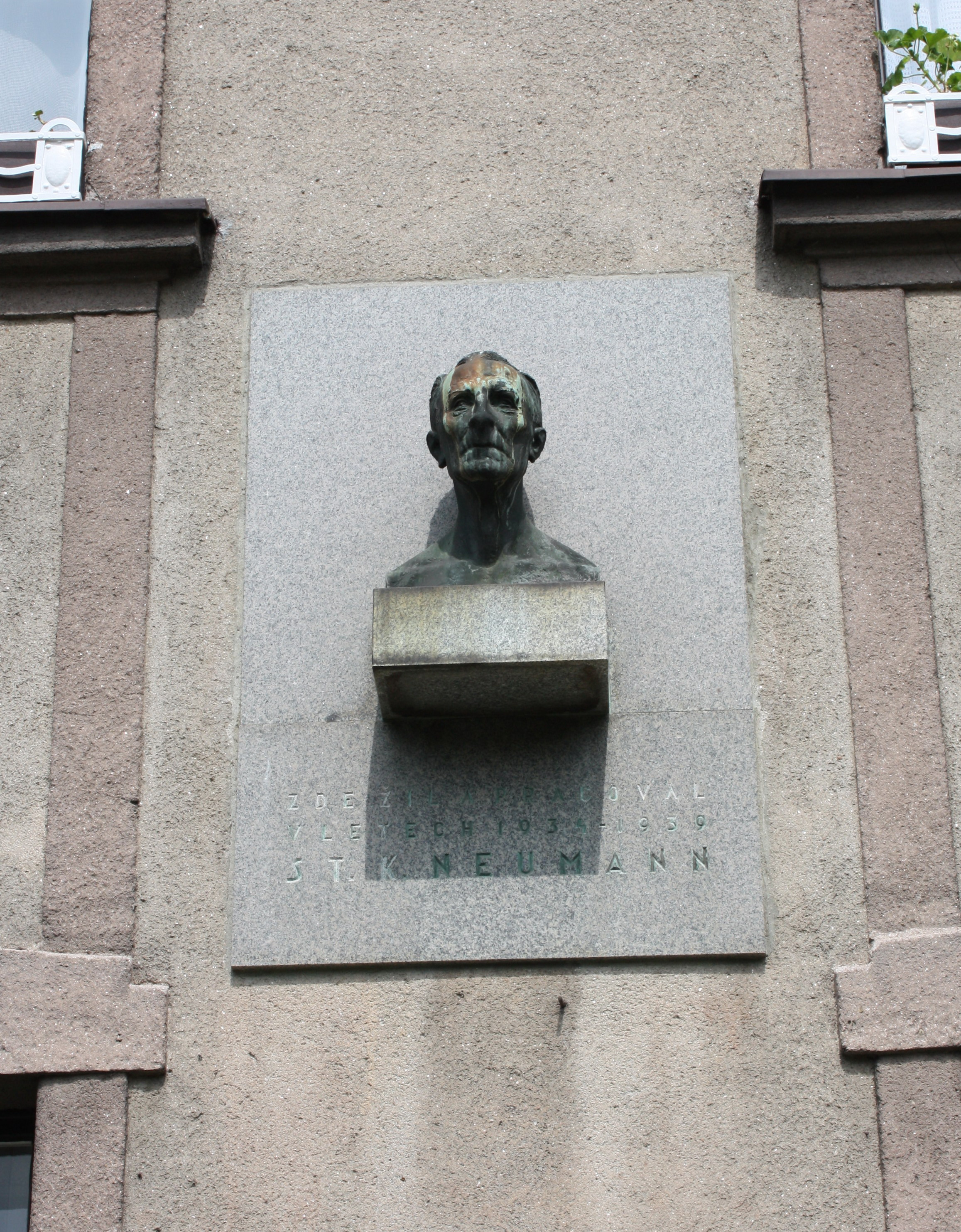 Poděbrady, Street Na Skupici, bust of S.K. Neumann